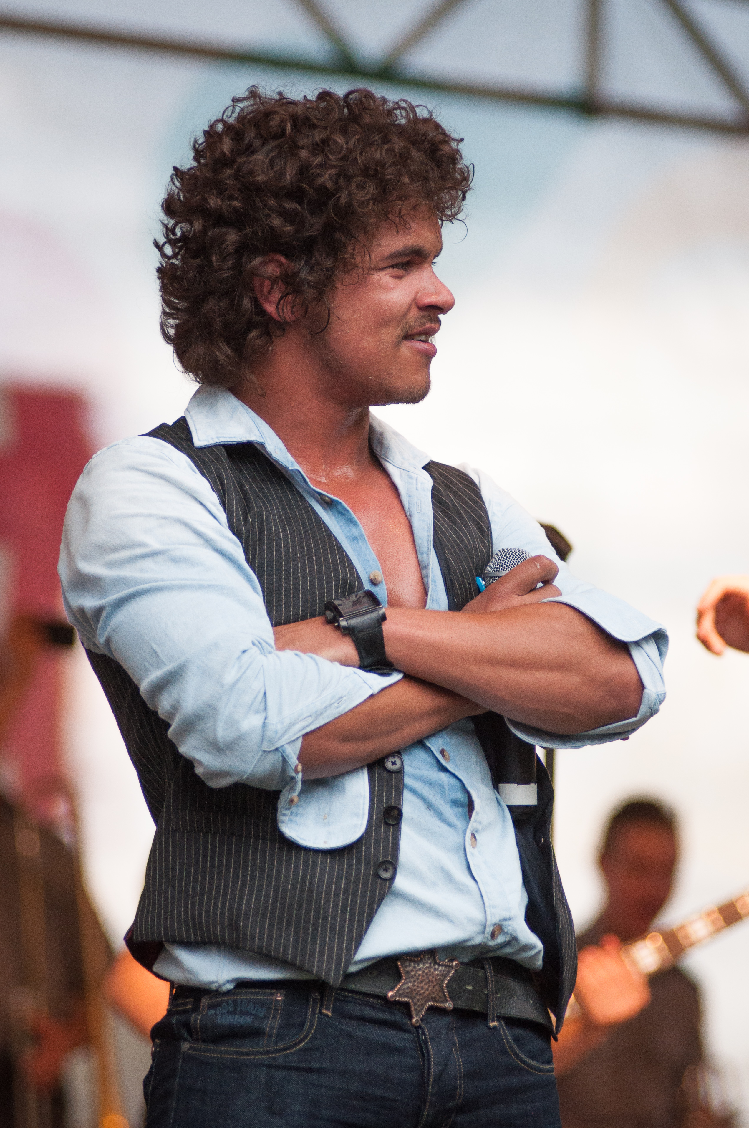 Finnish vocalist Pete Parkkonen performing in Lappeenranta, Finland.